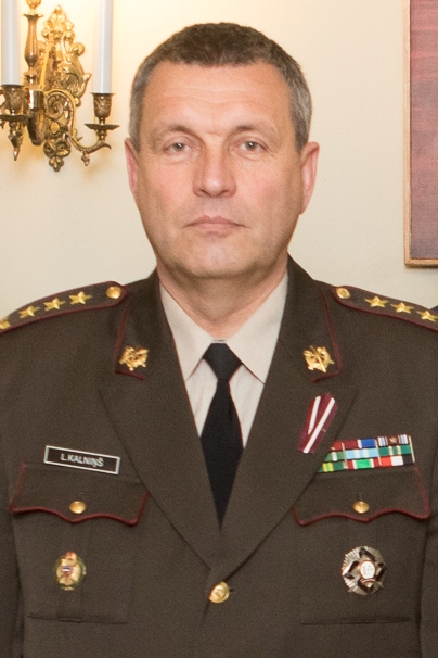 Lt. Gen. Leonīds KalniņšLatviešu: Ģenerālleitnants Leonīds Kalniņš